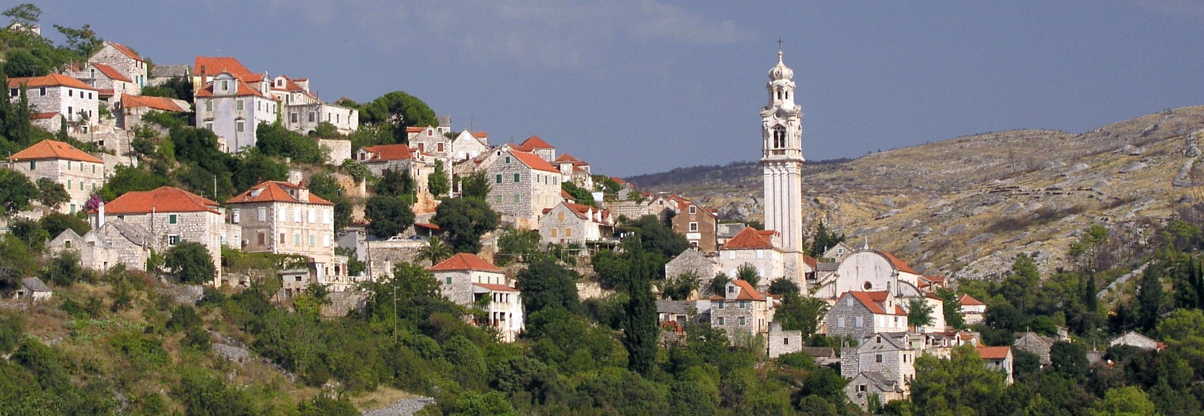 Ložišća Village, Brač Island, Croatia